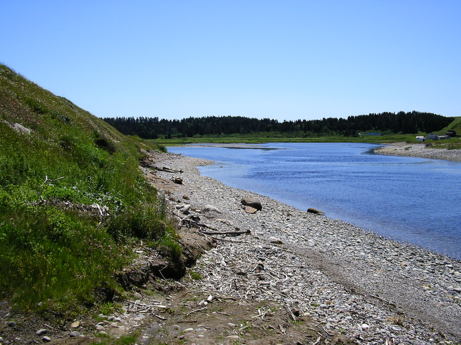 Robinsons River at Robinsons Beach, near the Atlantic Ocean in Newfoundland and Labrador, Canada.